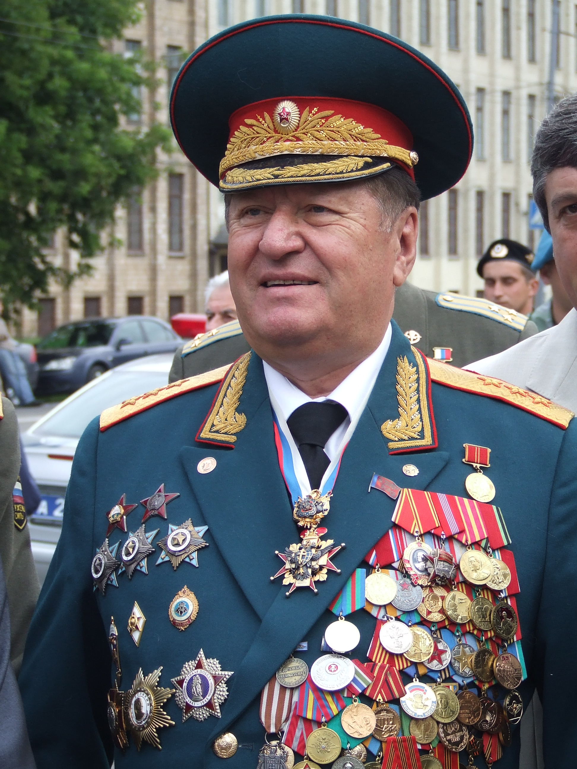 12th Russian Airborne Troops Commander-in-Chief, Col. Gen. Vladislav Achalov (in office: January 1989 – December 1990) at the Airborne Troops Day in Moscow.